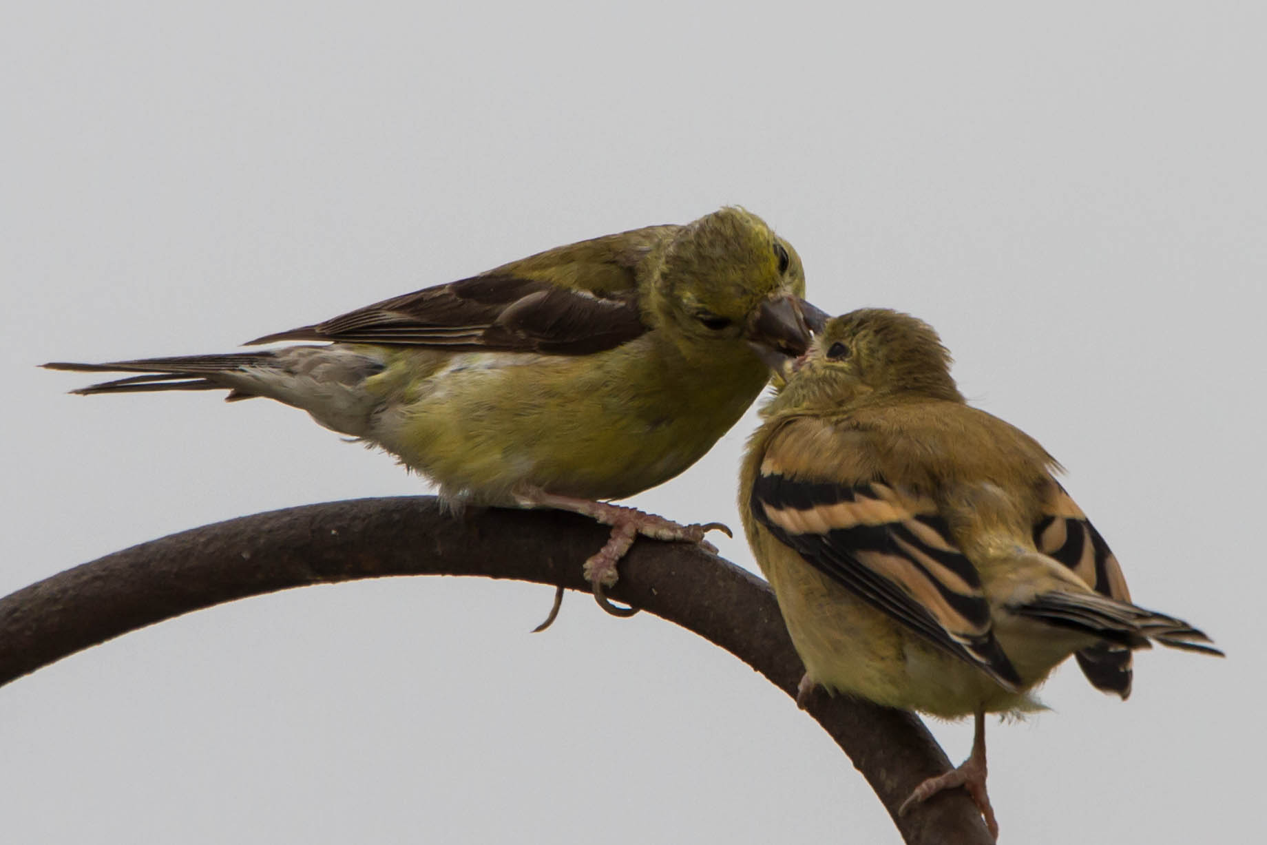 Female Adult American Goldfinch Feeding Fledgling